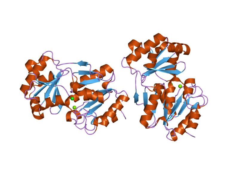 Cartoon representation of the molecular structure of protein registered with 1rkq code.